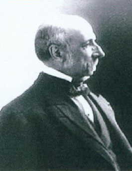 French sculptor, Prosper d'Epinay (1836-1914)